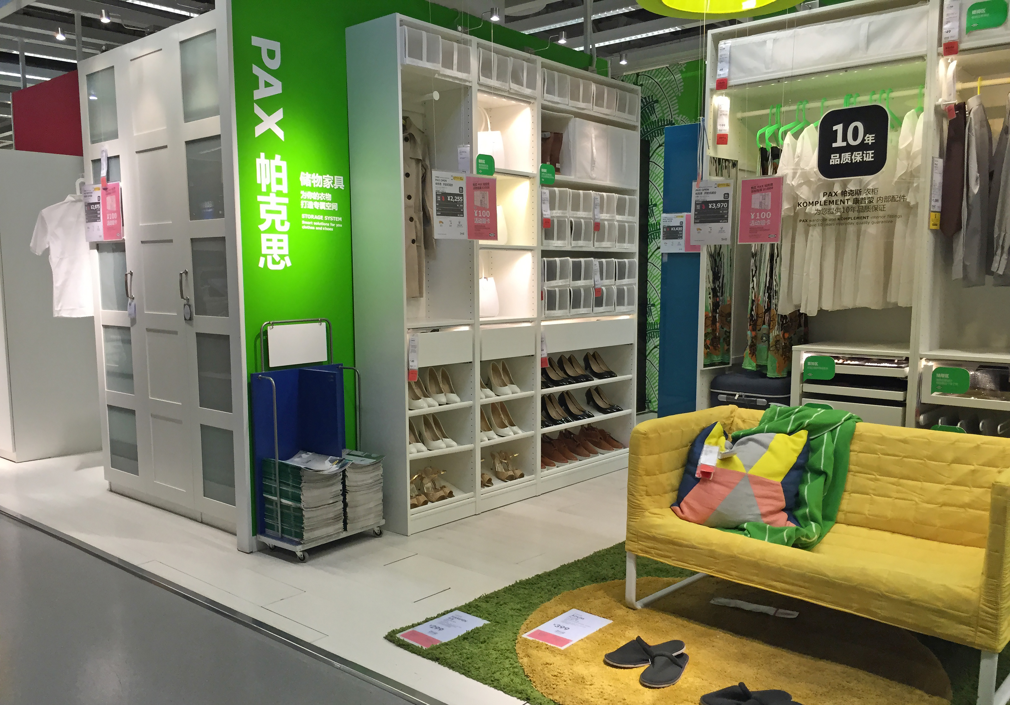 Seen on display. Large furniture and small gadgets are located on the same floor at Xihongmen, but I wonder where those shoes from.